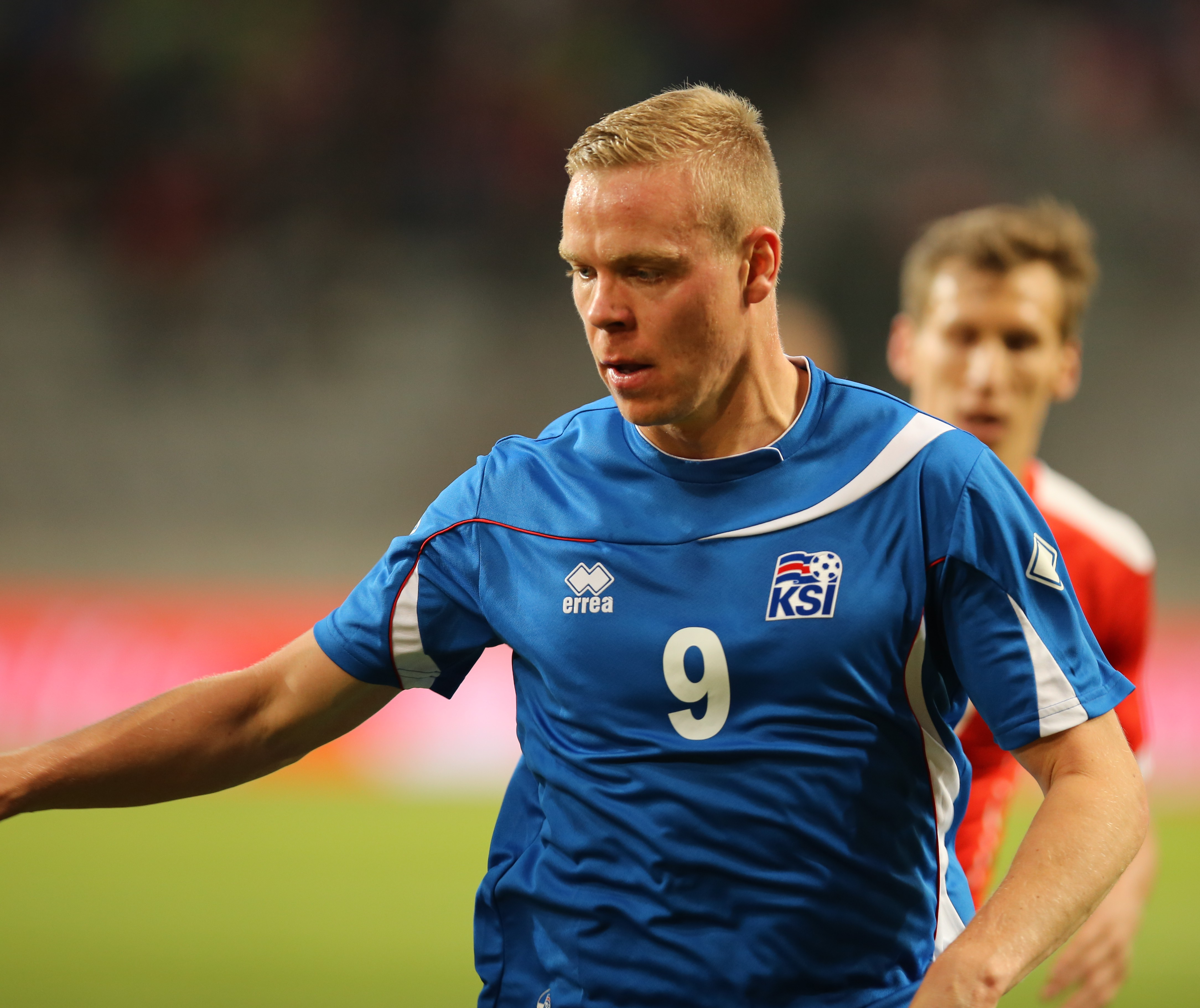 Austria - Iceland football match in Innsbruck, Austria on 2014-05-30. Austria in red, Iceland in blue.